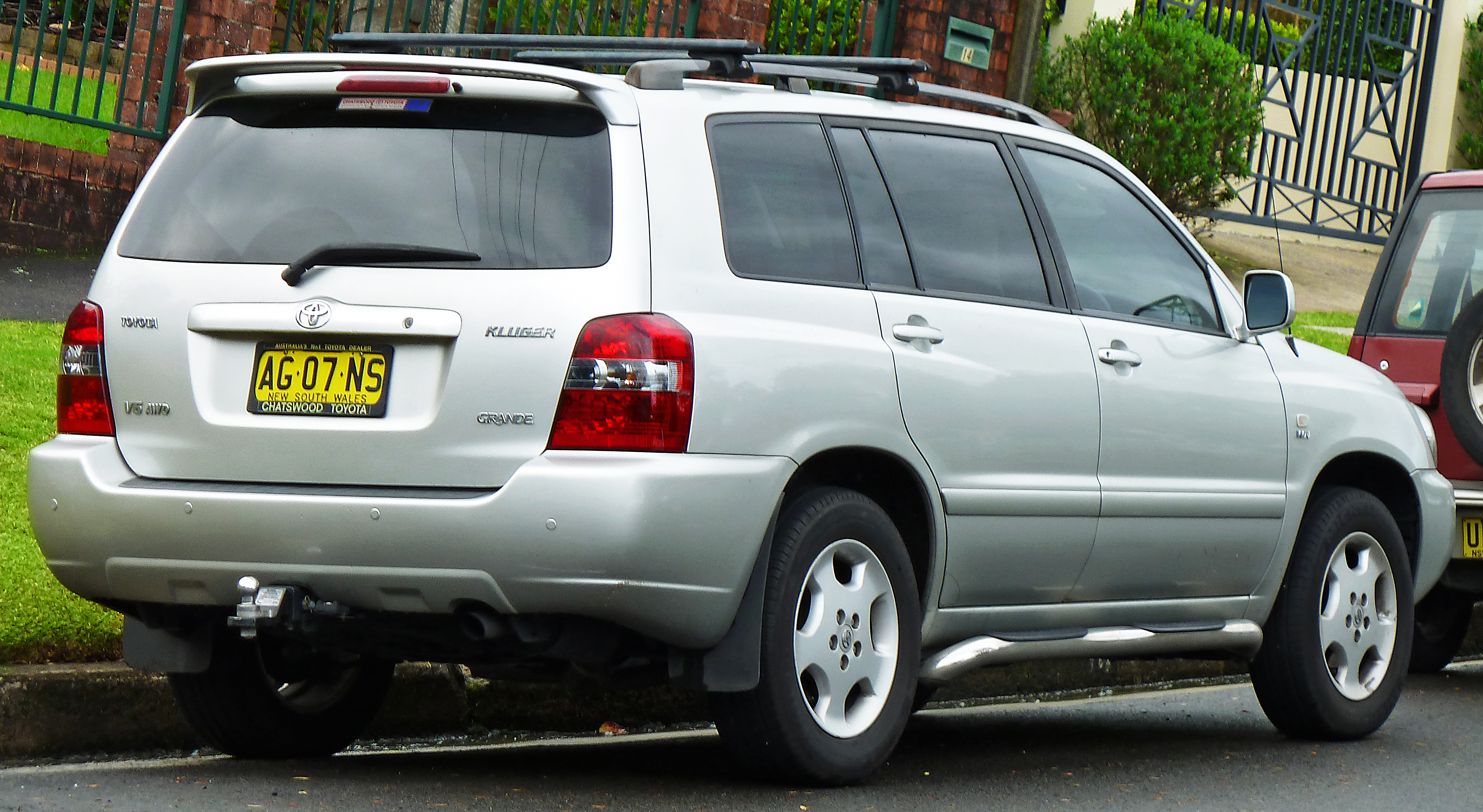 2003–2007 Toyota Kluger (MCU28R) Grande wagon. Photographed in Gordon, New South Wales, Australia.